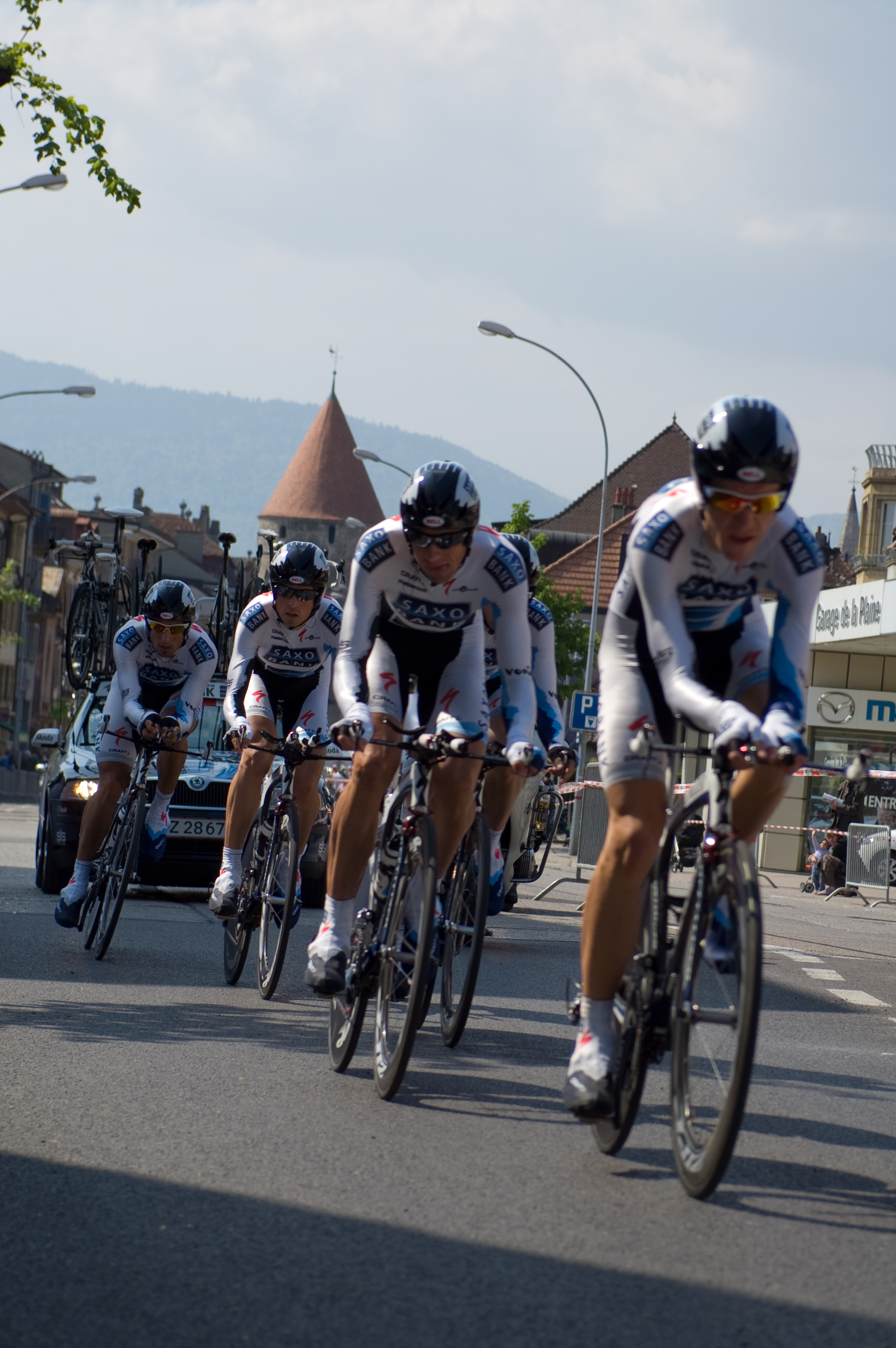 Tour de Romandie 2009 - 3rd stage - team time trial